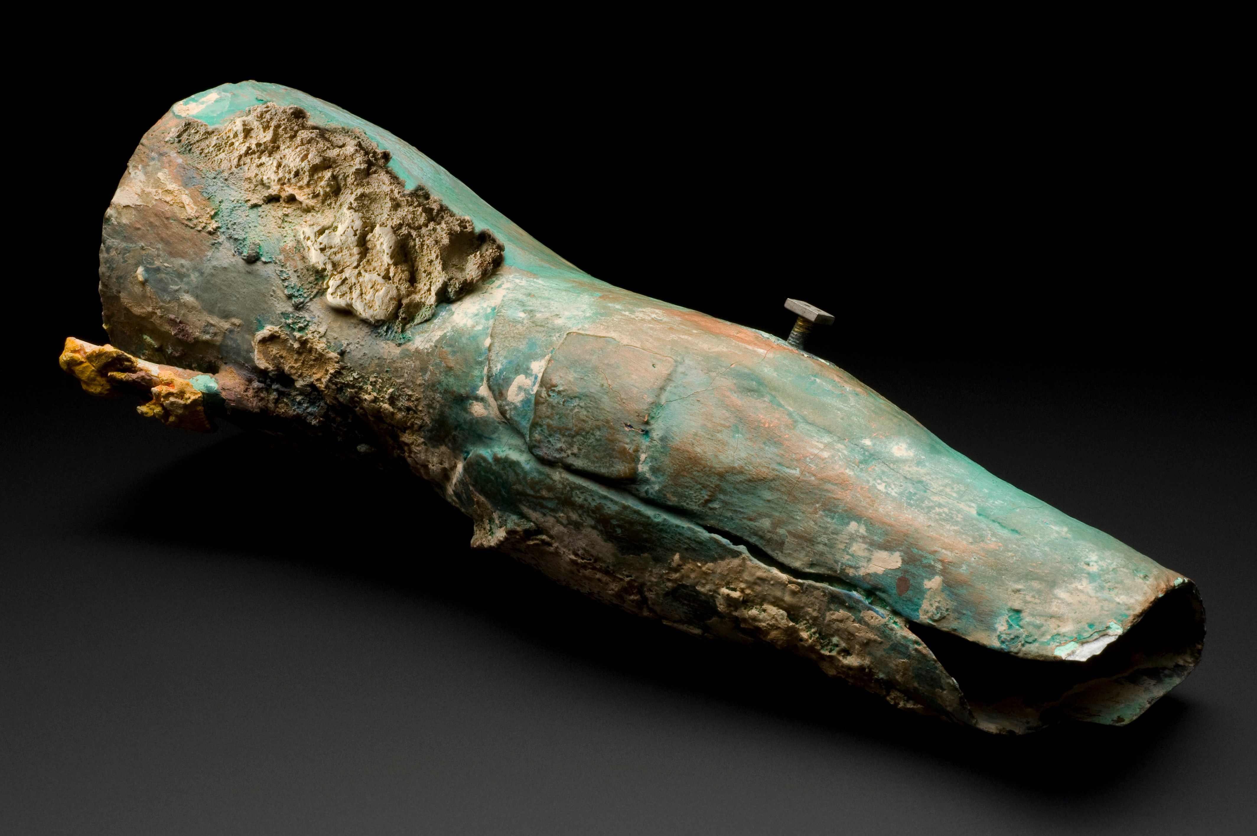 “Capua leg”. Copy of an artificial leg dating from about 300 BC, excavated from a tomb near Capua.